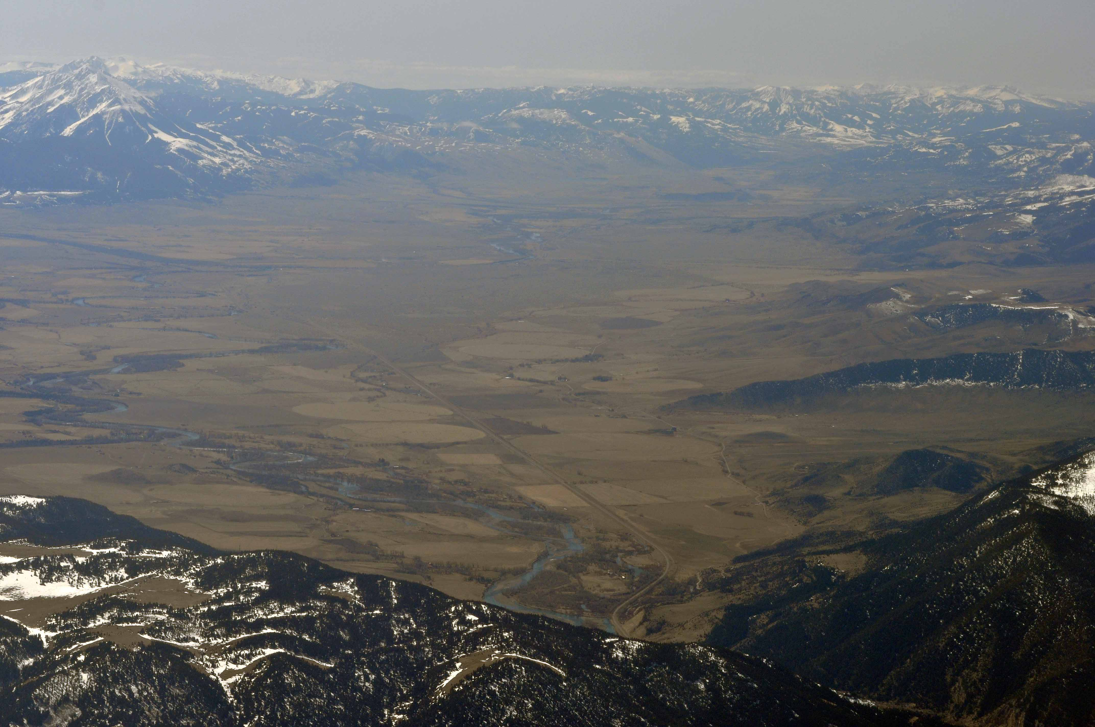 Paradise Valley Montana from 15,000 feet over Livingston, Montana (looking south)